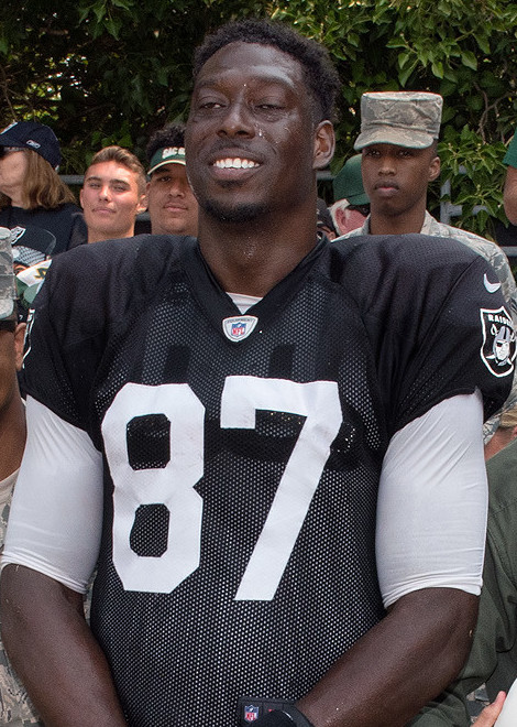 Oakland Raiders tight end Jared Cook poses for a photo with Airmen from Travis Air Force Base, Calif., after his practice in Napa Valley, Calif., August 7, 2018. The Raiders invited Travis Airmen to attend camp and were treated to a scrimmage between the Raiders and Detroit Lions and a meet and greet autograph session with players and coaches from both teams. (U.S. Air Force photo by Louis Briscese)